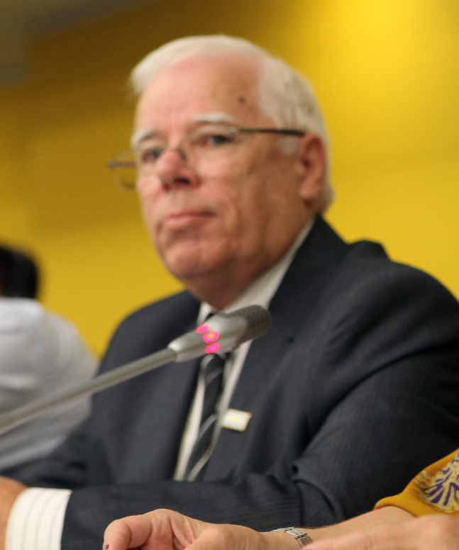 Argentine Petitioner: Alejandro Betts at the Special Committee on Decolonization. 21/06/2011. New York.